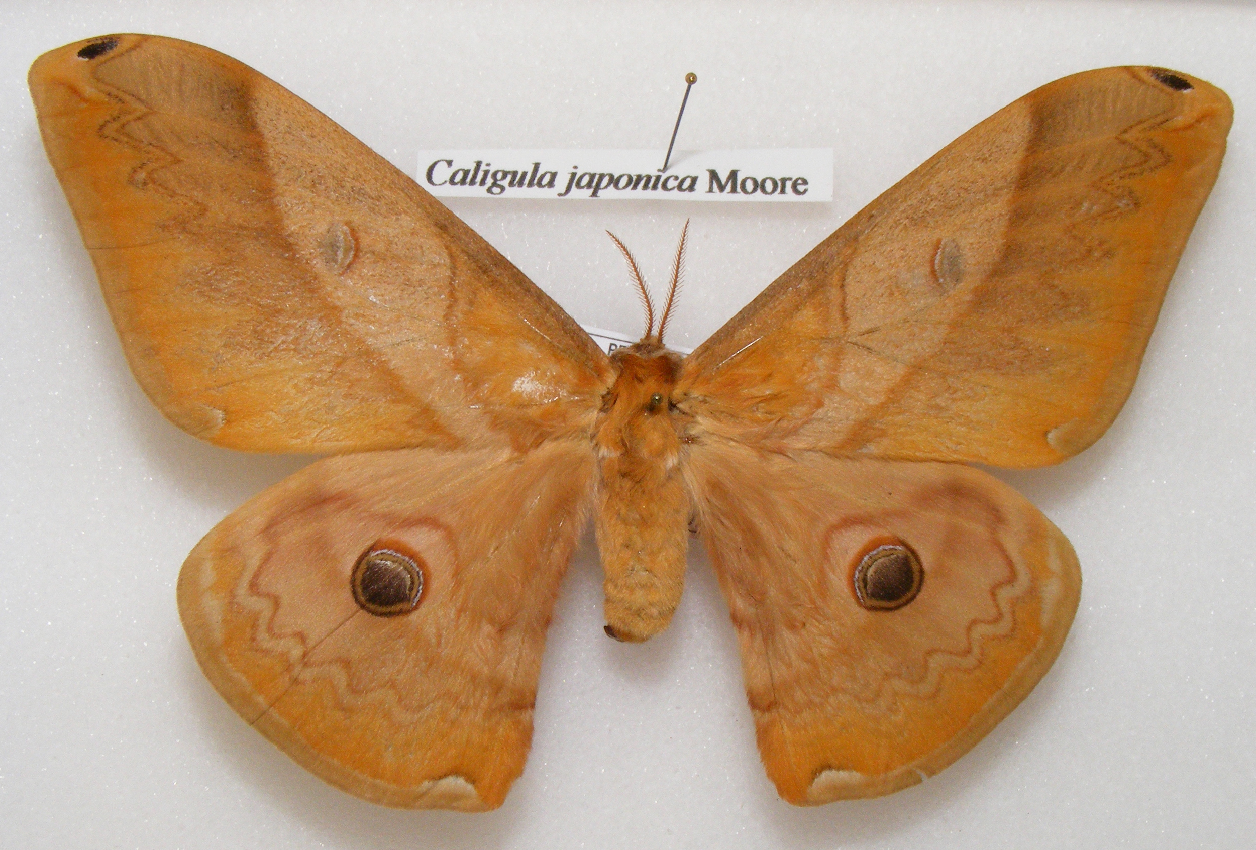 Caligula japonica adult female from the Texas A&M University Insect Collection